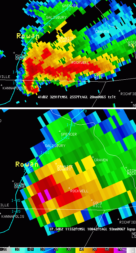 Radar reflectivity at 0.5 degree scan from the KGSP WSR-88D (NEXRAD) at 1844 UTC (right) and Radar reflectivity at 1.0 degree scan from the TCLT TDWR, colocated, at 1842 UTC on left. One can notice easily the improved resolution on the TDWR but the attenuation region caused by the heavy precipitations when compared to NEXRAD data